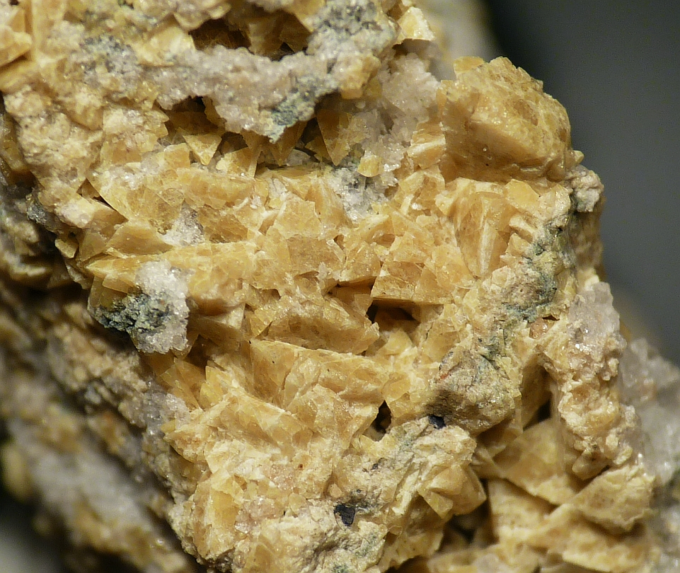 Helvine (Field of view 1.5 cm) Locality: Unverhofft Glück an der Achte Mine, Antonsthal, Breitenbrunn District, Erzgebirge, Saxony, Germany